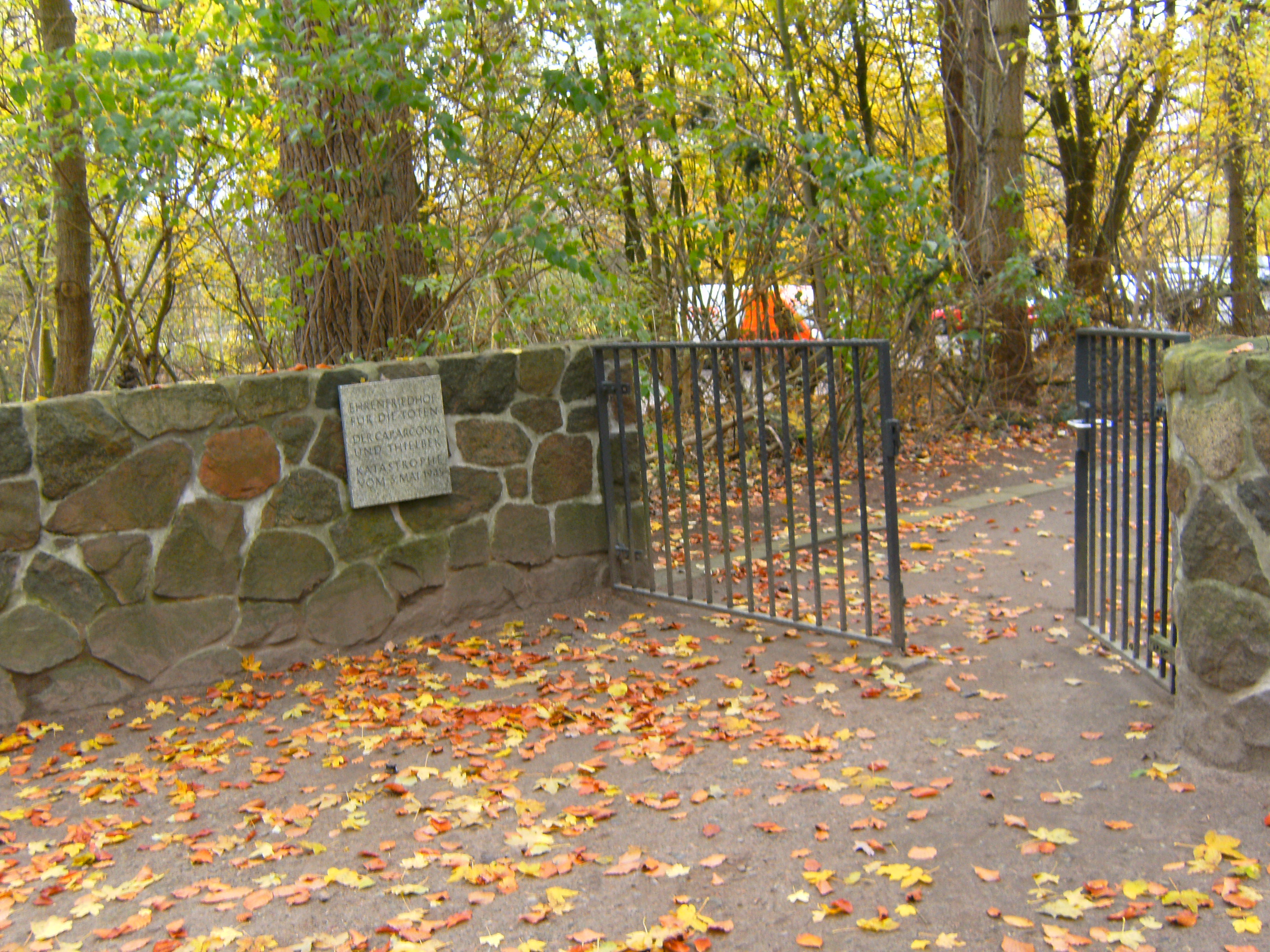 Entrance to cemetery (Ehrenfriedhof Cap Arcona in Scharbeutz-Haffkrug). This is one of the cemeteries for detained people on board of Cap Arcona ship who died by bombardment.